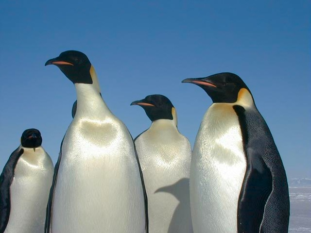 A group of Emperor penguins, the largest of all penguins. They stand nearly 3 feet tall and can weigh over 80 pounds. They are the most southerly of all penguin species, living and breeding on the ice.